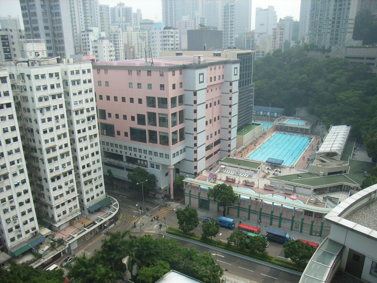 士美非路市政大廈 & 堅尼地城游泳池, Smithfield, Kennedy Town, Hong Kong (By KennethTom).